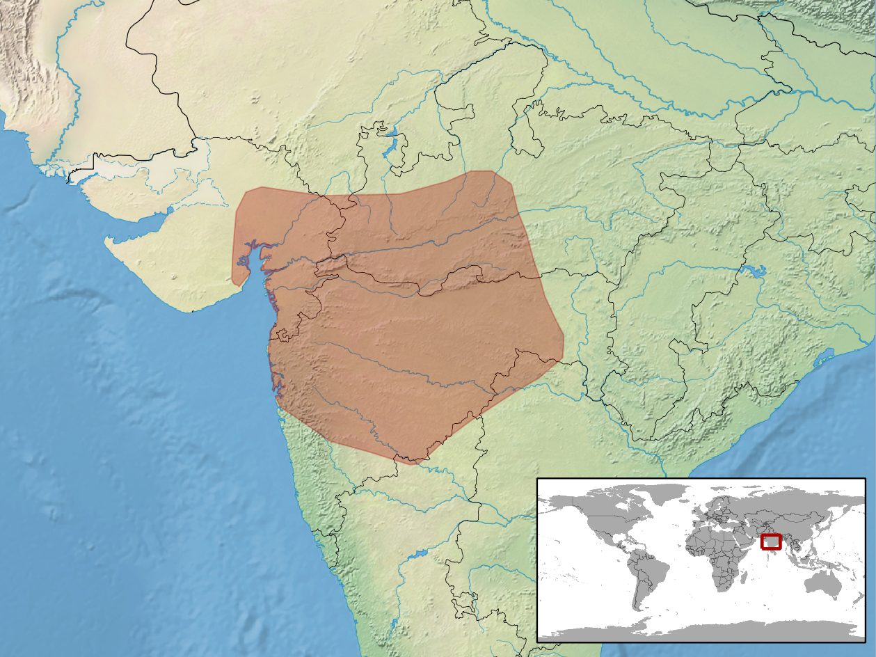 geographic distribution of Coronella brachyura (Native: India (Gujarat, Madhya Pradesh, Maharashtra))